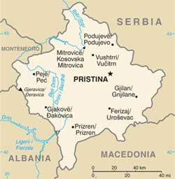 Kosova-map